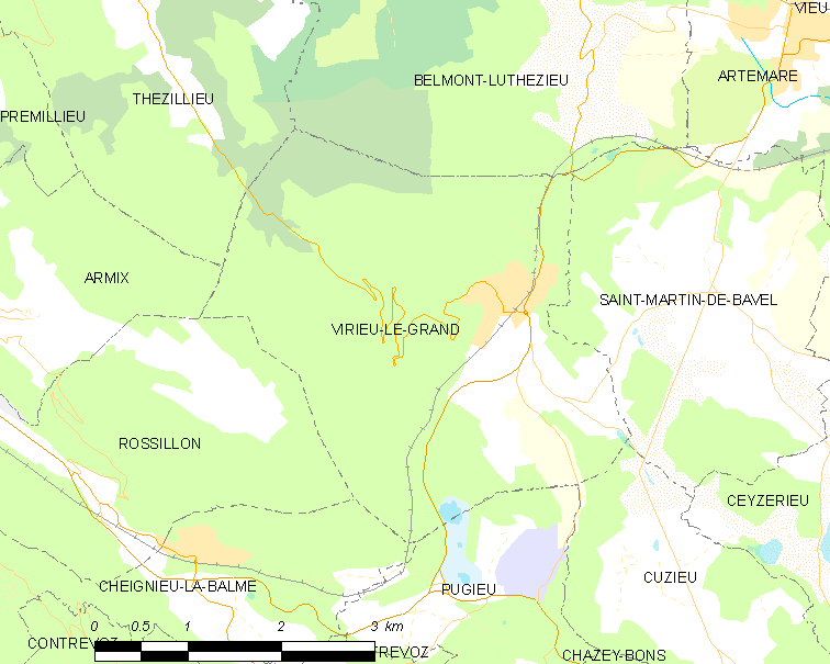 Map of French commune: Virieu-le-Grand Map commune FR insee code 01452.png